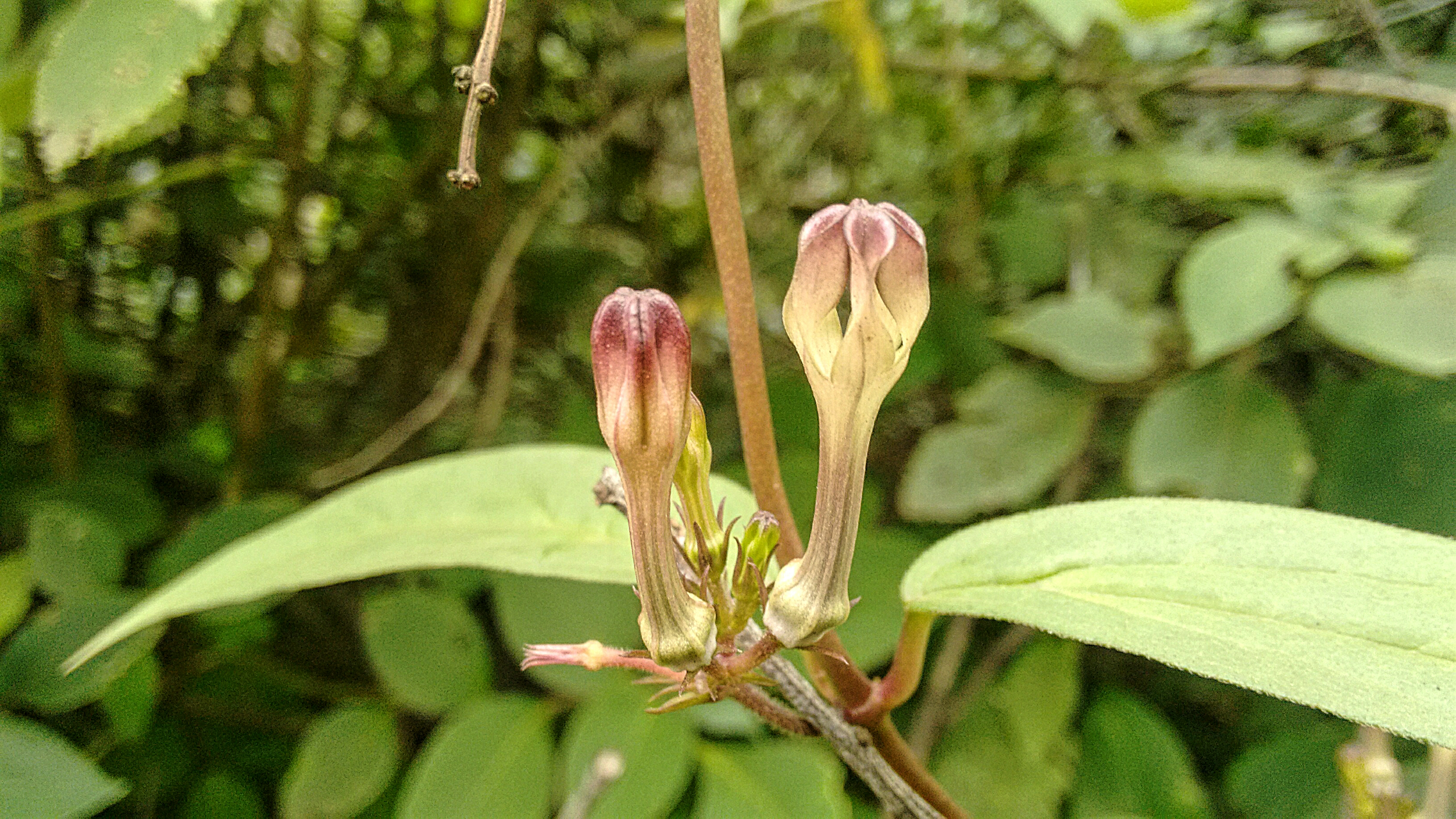 Ceropegia media is one of the rare plants of Western Ghats of India, which is declared as biodiversity hotspot. This plant is called as 'Kandilpushpa' in local language meaning lantern flower.